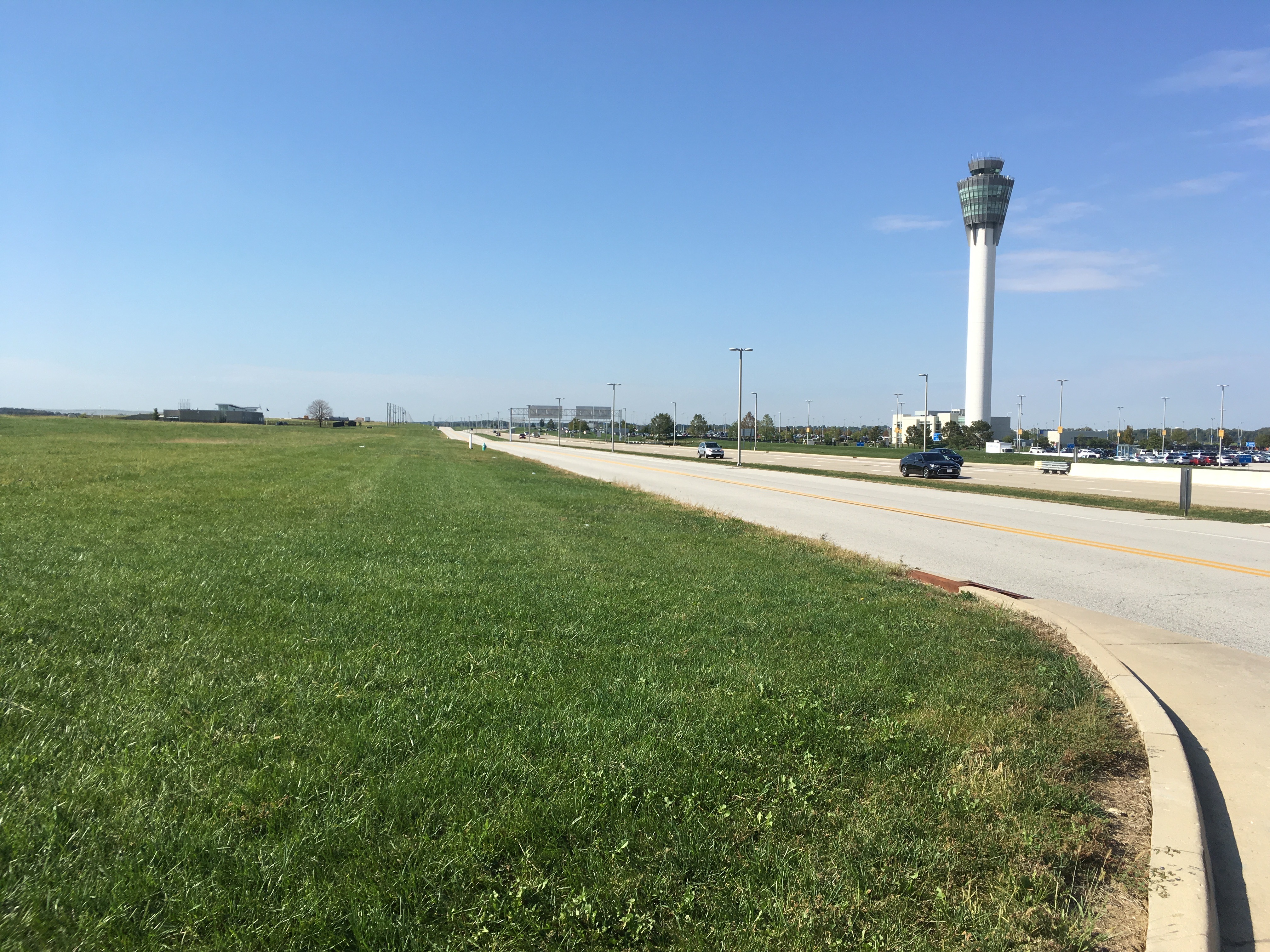 Indianapolis Intl Airport flight tower